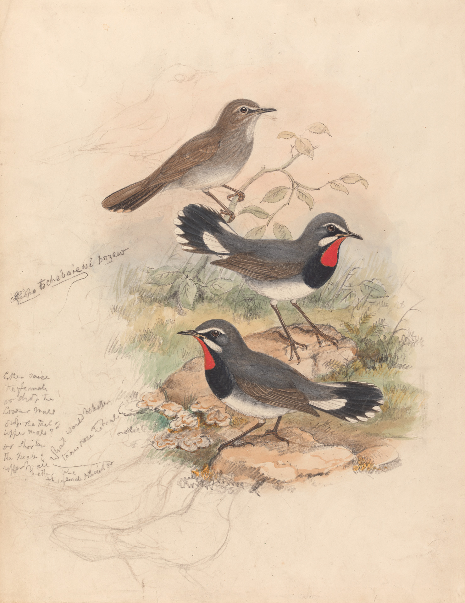 "Calliope Tschebaiswi Prjer (Thrush Family)," by the English ornithologist and artist John Gould. Watercolour and gouache over graphite on wove paper. Watercolor and gouache over graphite on wove paper. 18 3/4 inches x 14 1/8 inches (47.6 cm x 35.9 cm). Courtesy of the Paul Mellon Collection, Yale Center for British Art, Yale University, New Haven, Connecticut.